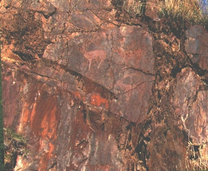 Mugur-Sargol